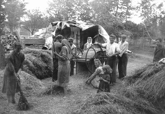 Pobiedno (Sanok County) village burned down by Ukrainian Insurgent Army on April 1946.